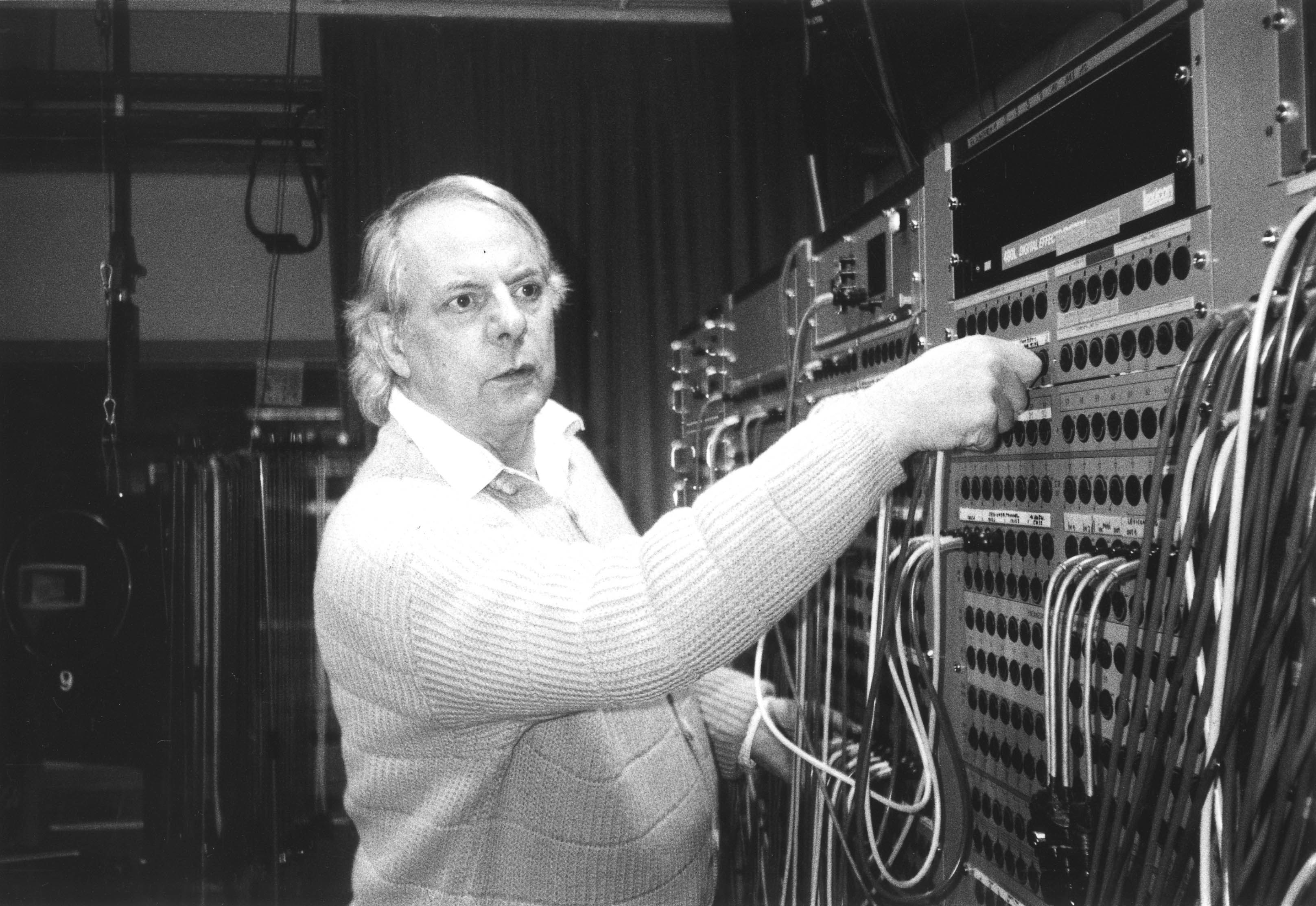 Karlheinz Stockhausen October 1994 in the Studio for Electronic Music of WDR Cologne, during production of the Electronic Music from FRIDAY from LIGHT.